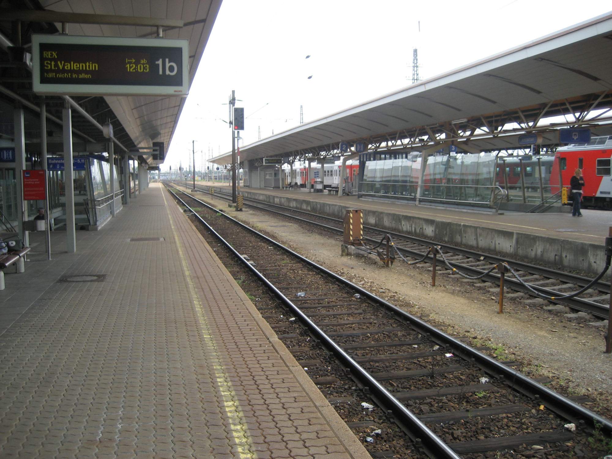 train station in Amstetten, Lower Austria